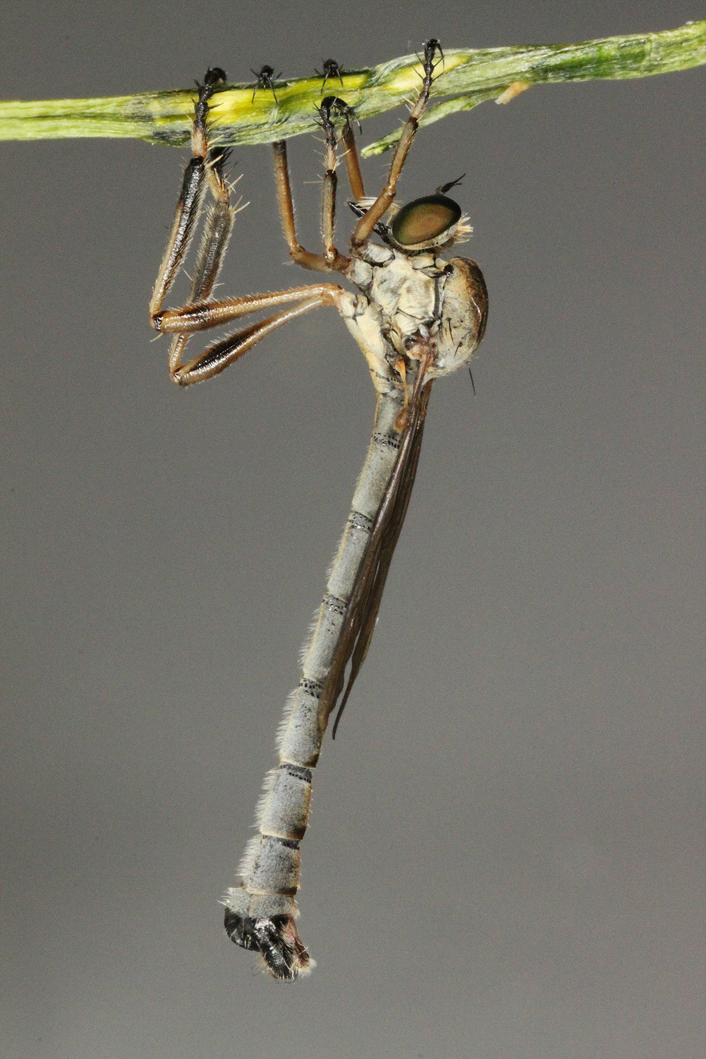 Leptogaster cylindrica, Deeside, North Wales, July 2011 2